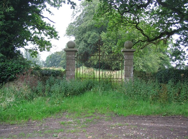 Gates to Shanks House A view looking west from a lane south of Cucklington, towards the gates to Shanks House. The gates and drive have clearly not been in use for some time, if the amount of vegetation is anything to go by.